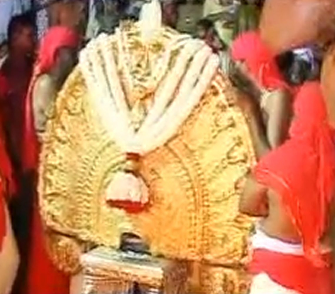 Vellayani Devi Temple